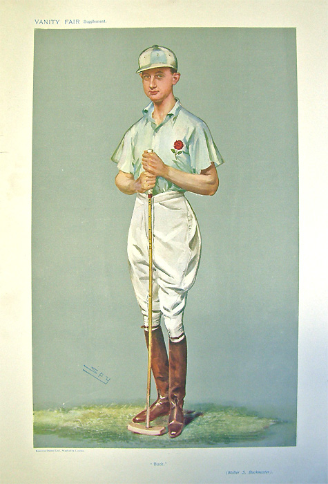 Men of the Day No.1082: Caricature of Mr WS Buckmaster. Caption reads: "Buck"